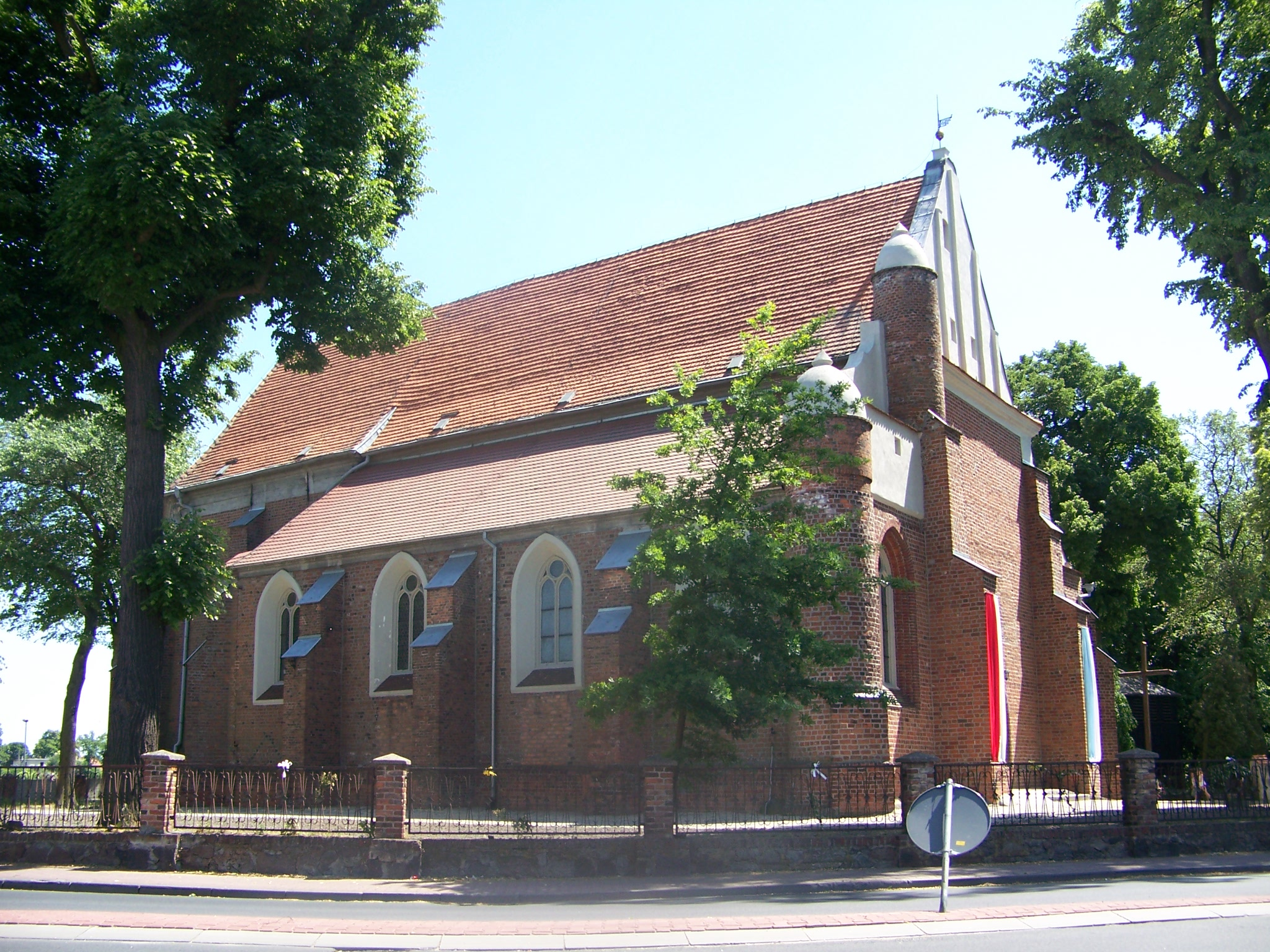 Saint Vitus Church in Rogoźno, Poland